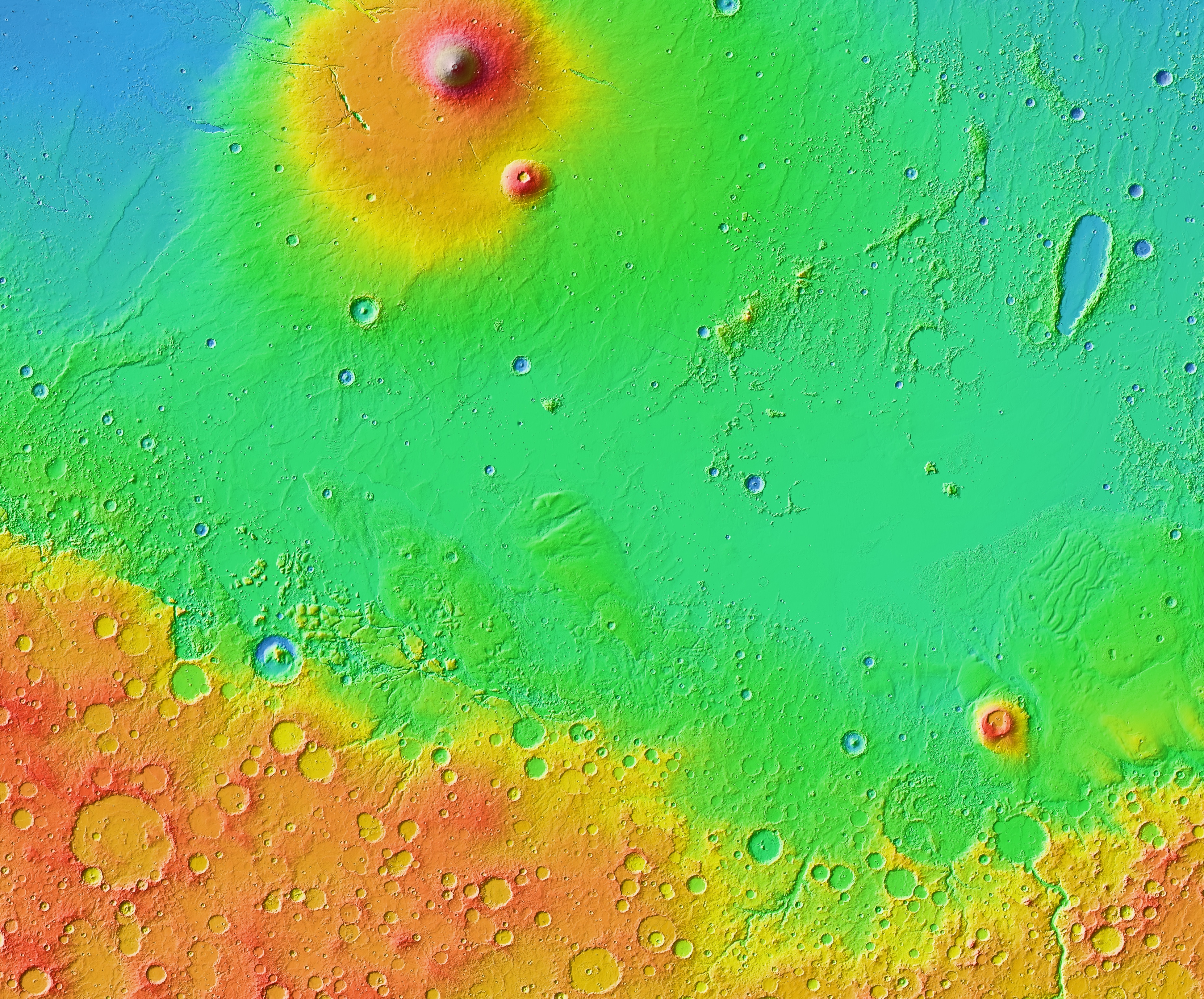 Elysium Planitia with surroundings on Mars. Elevation map (color shaded relief), based on data from Mars Orbiter Laser Altimeter onboard Mars Global Surveyor satellite. Size of the image is 3600×3000 km, north is up.